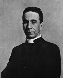 Priest Casu